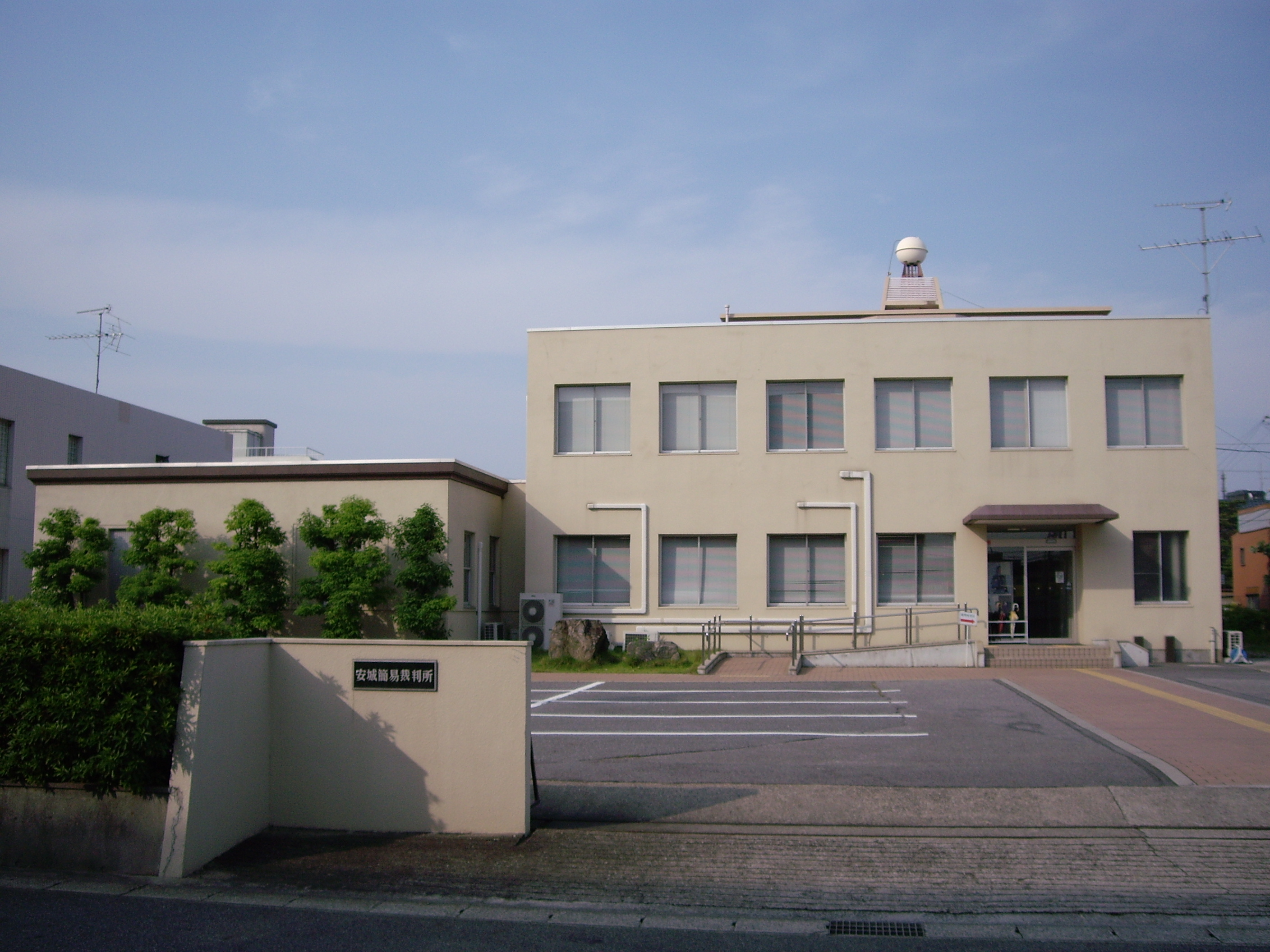 Anjo Summary Court in Anjo, Aichi prefecture, Japan.